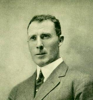 Photographic portrait of Captain Robert Bartlett